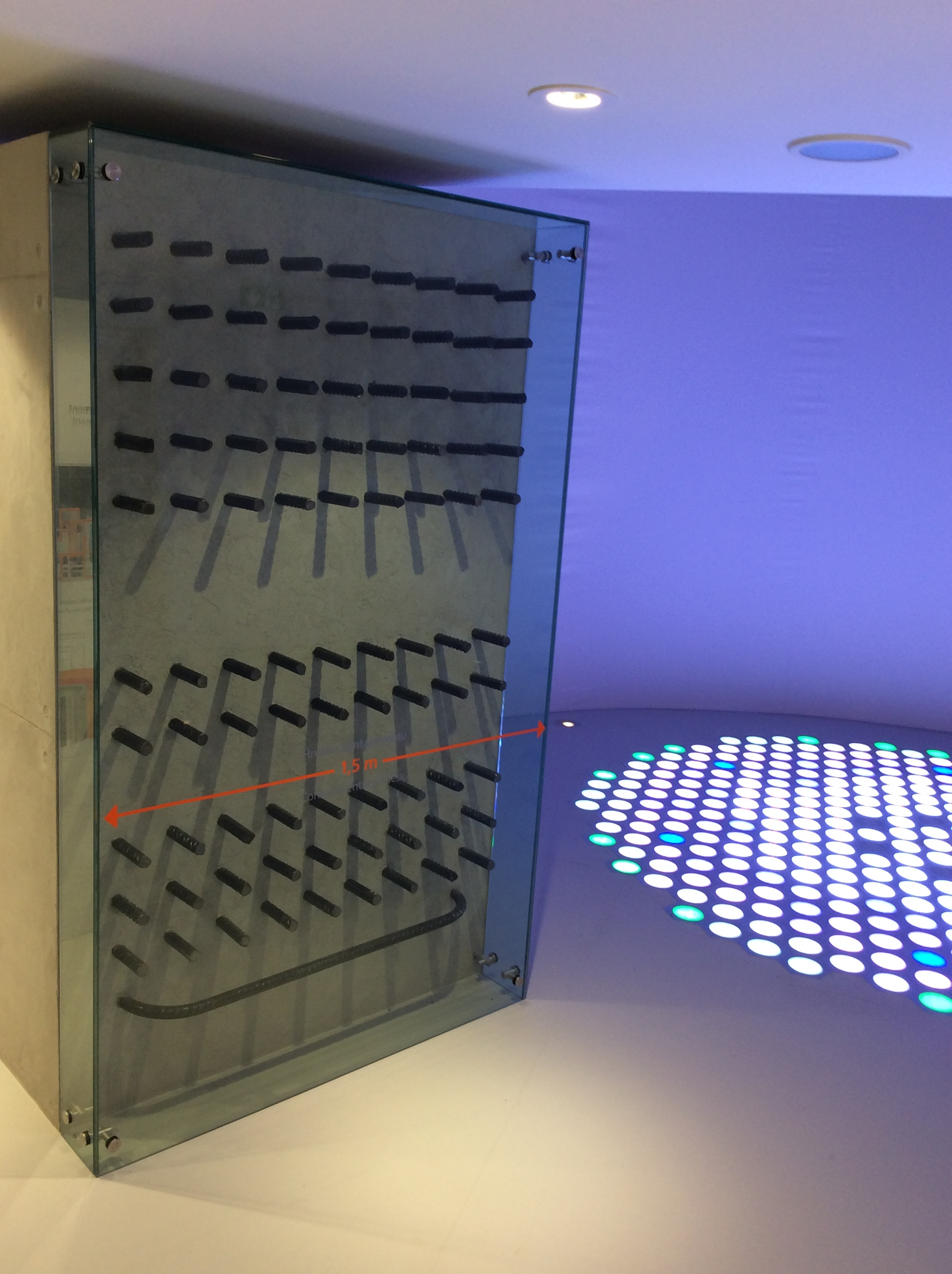 Kontainment.